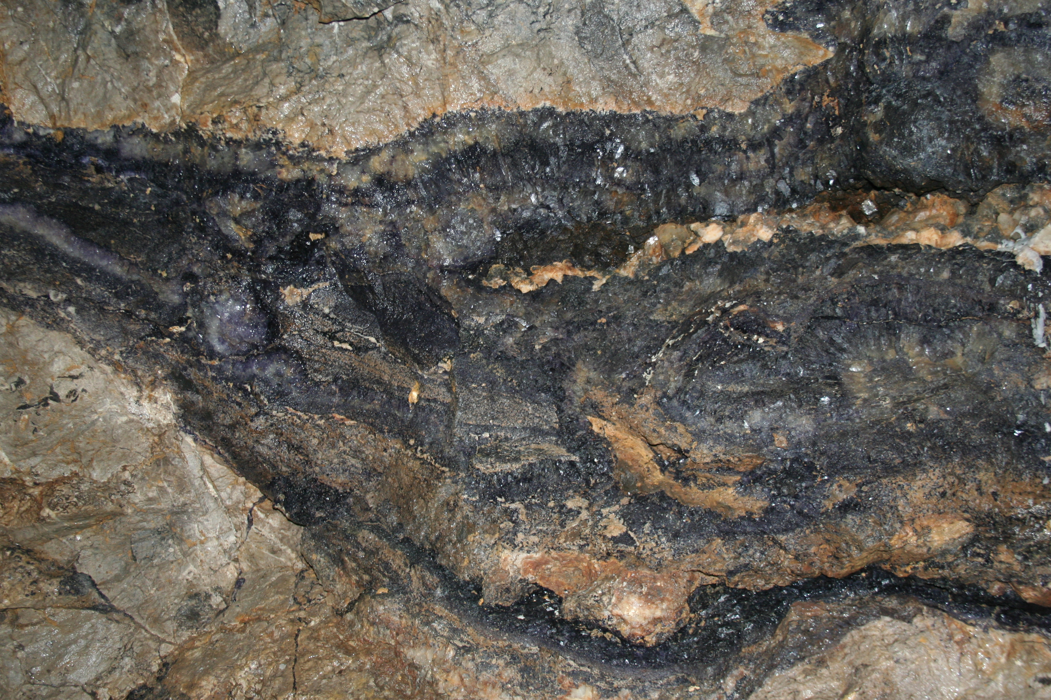 A vein of Derbyshire Blue John in the Witch's Cave, Treak Cliff Cavern, Derbyshire.